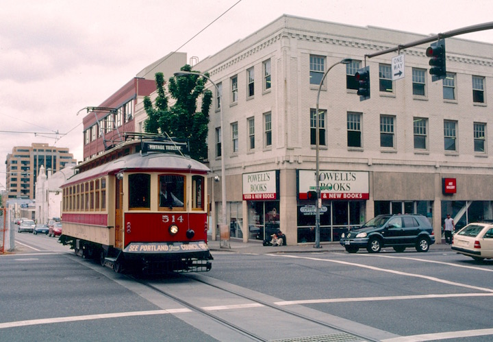 Portland Vintage Trolley car 514 southbound on 11th Avenue at Burnside Street, passing Powell's Books – on the second day of Vintage Trolley service on the then-new Portland Streetcar system.